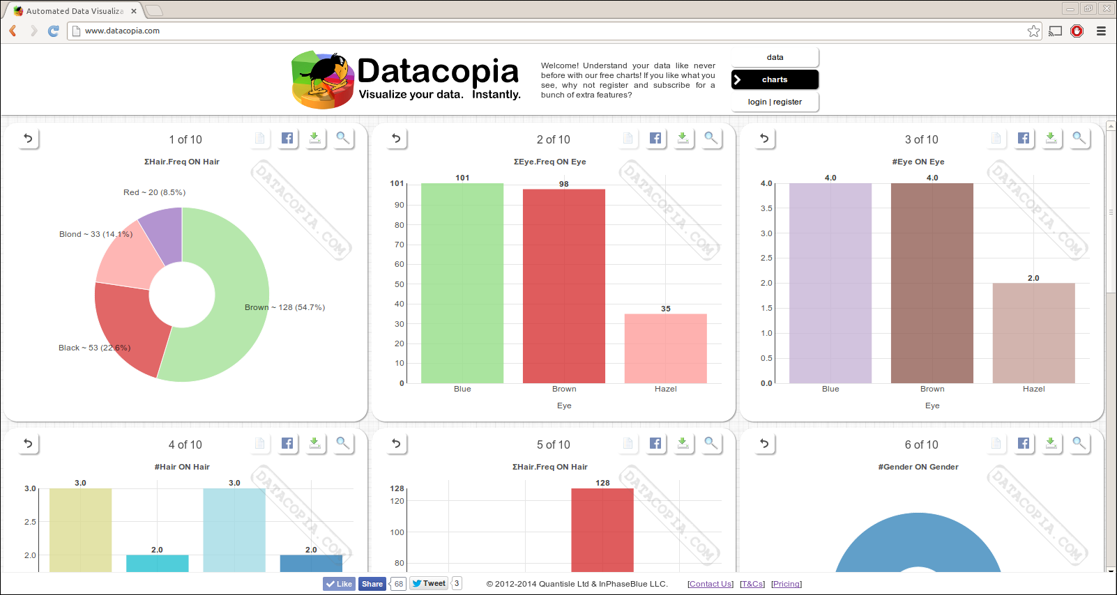 Sample charts created through